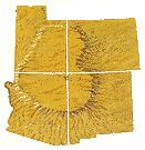 Map of the Colorado Plateau — in the Western United States.